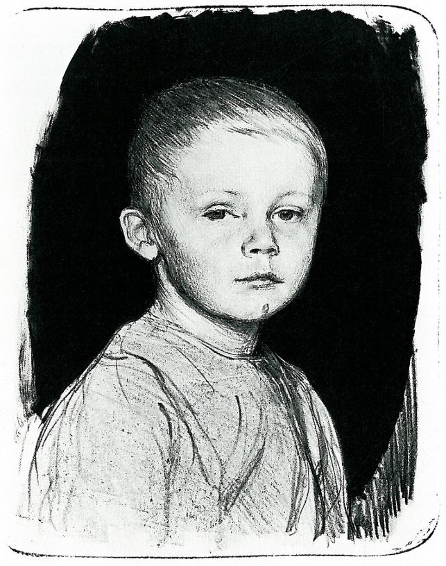 Käthe Kollwitz (1867–1945): Portrait of her eldest son Hans (1892–1971) at the age of 4 years.